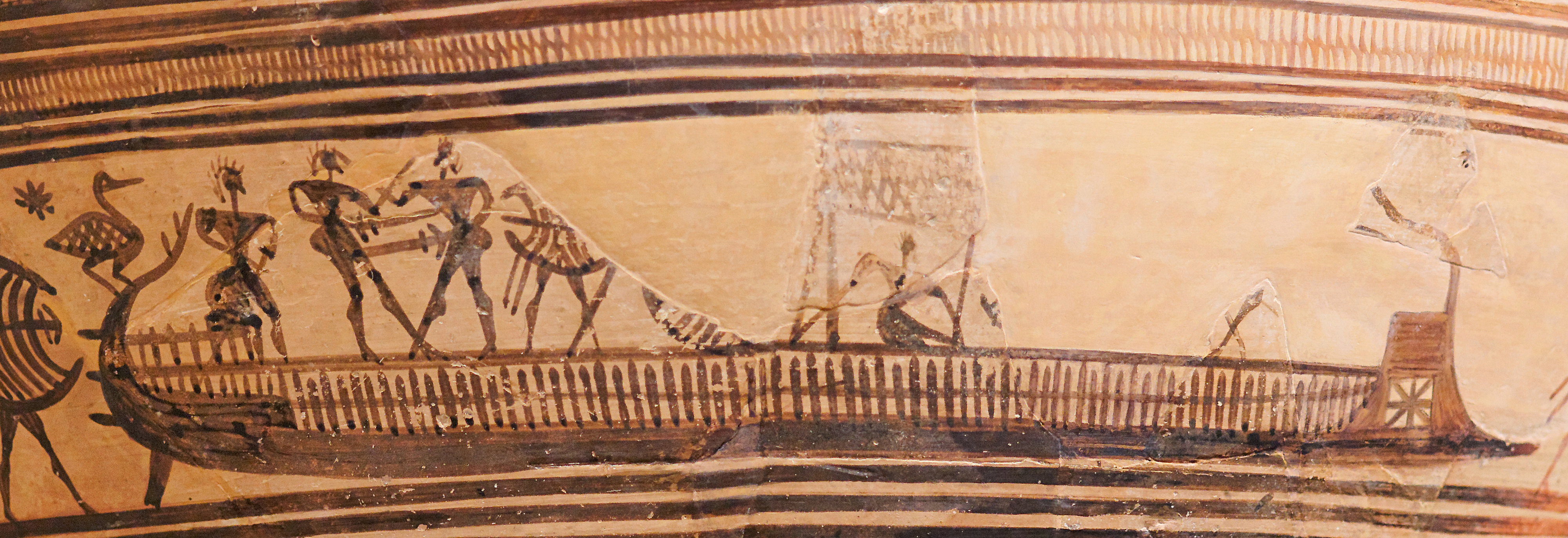 A prothesis scene and ships.